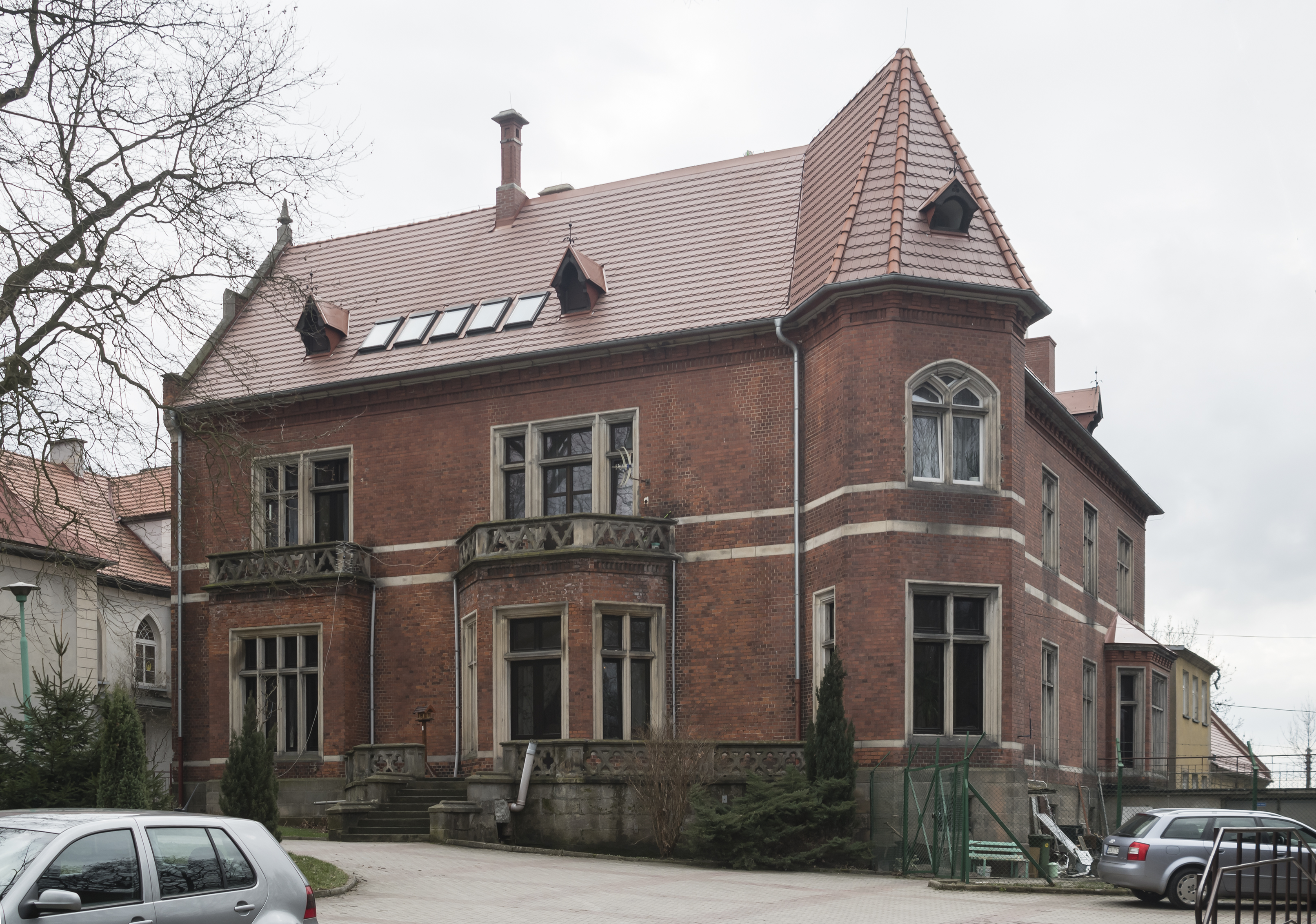 Castle in Opolnica